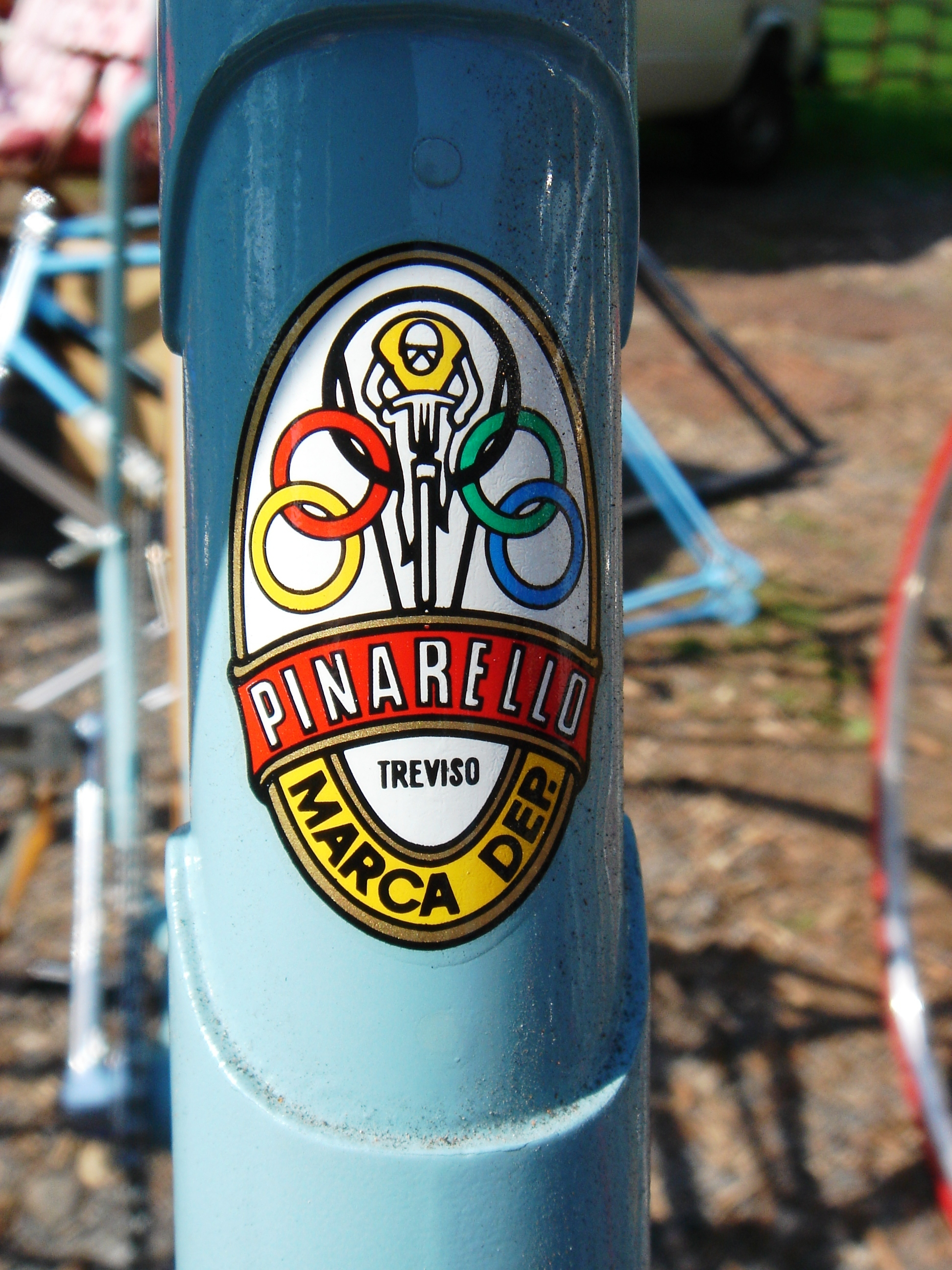 Pinarollo Head Badge